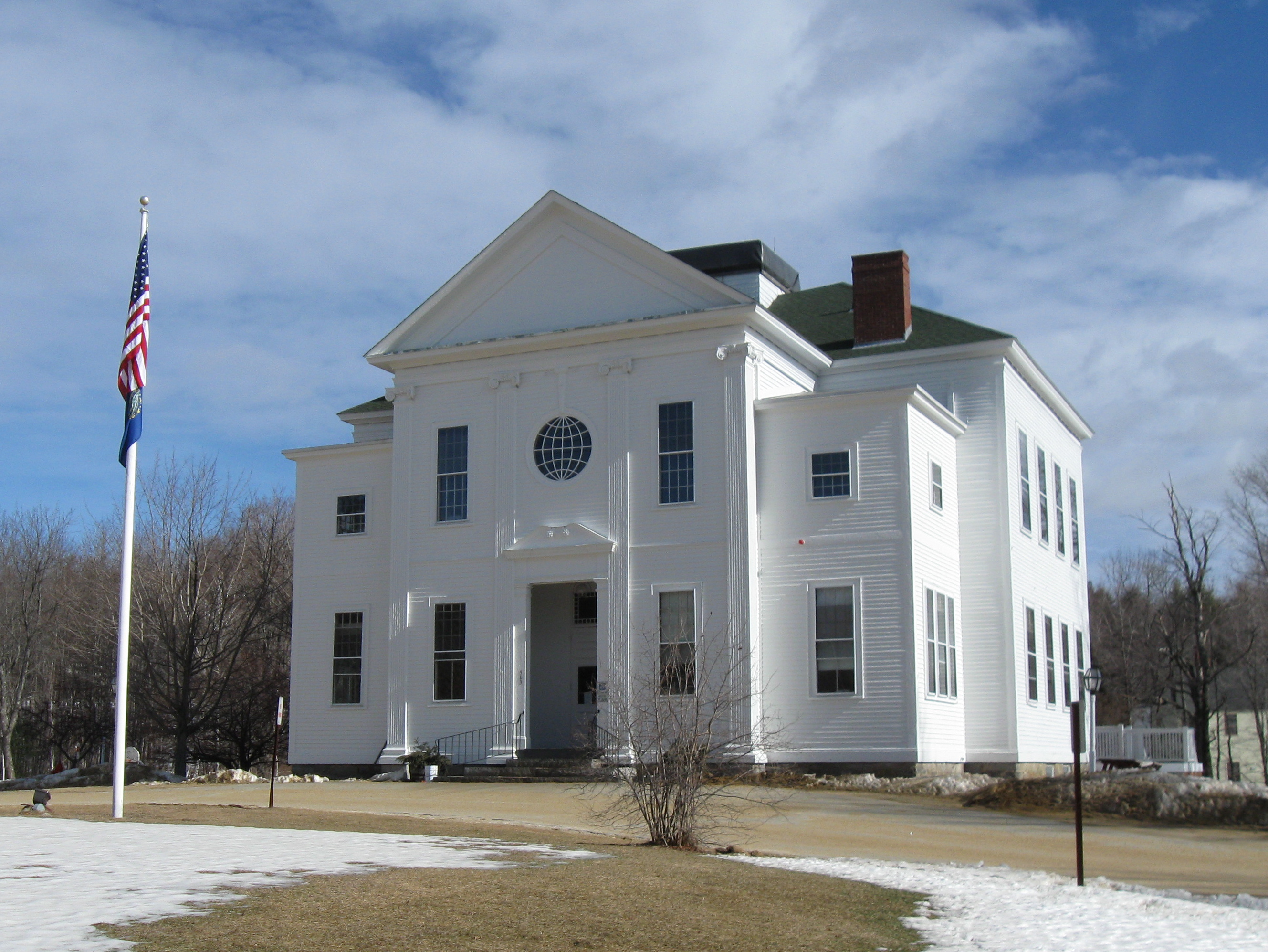 Gilmanton Academy, Gilmanton, New Hampshire. Photo by Ken Gallager, February 15, 2010.